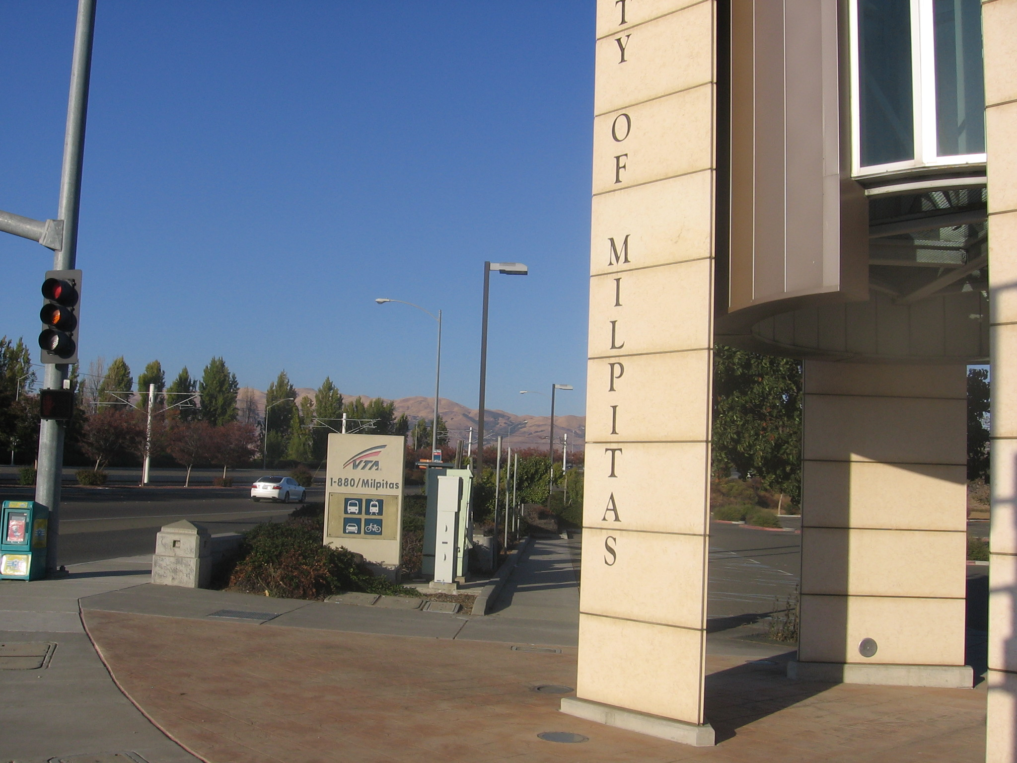 The I-880/Milpitas (VTA) light rail station in Milpitas, California, USA.